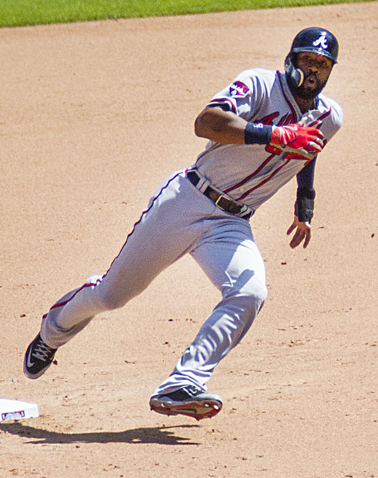 Jason Heyward Atlanta Braves Right Right fielder